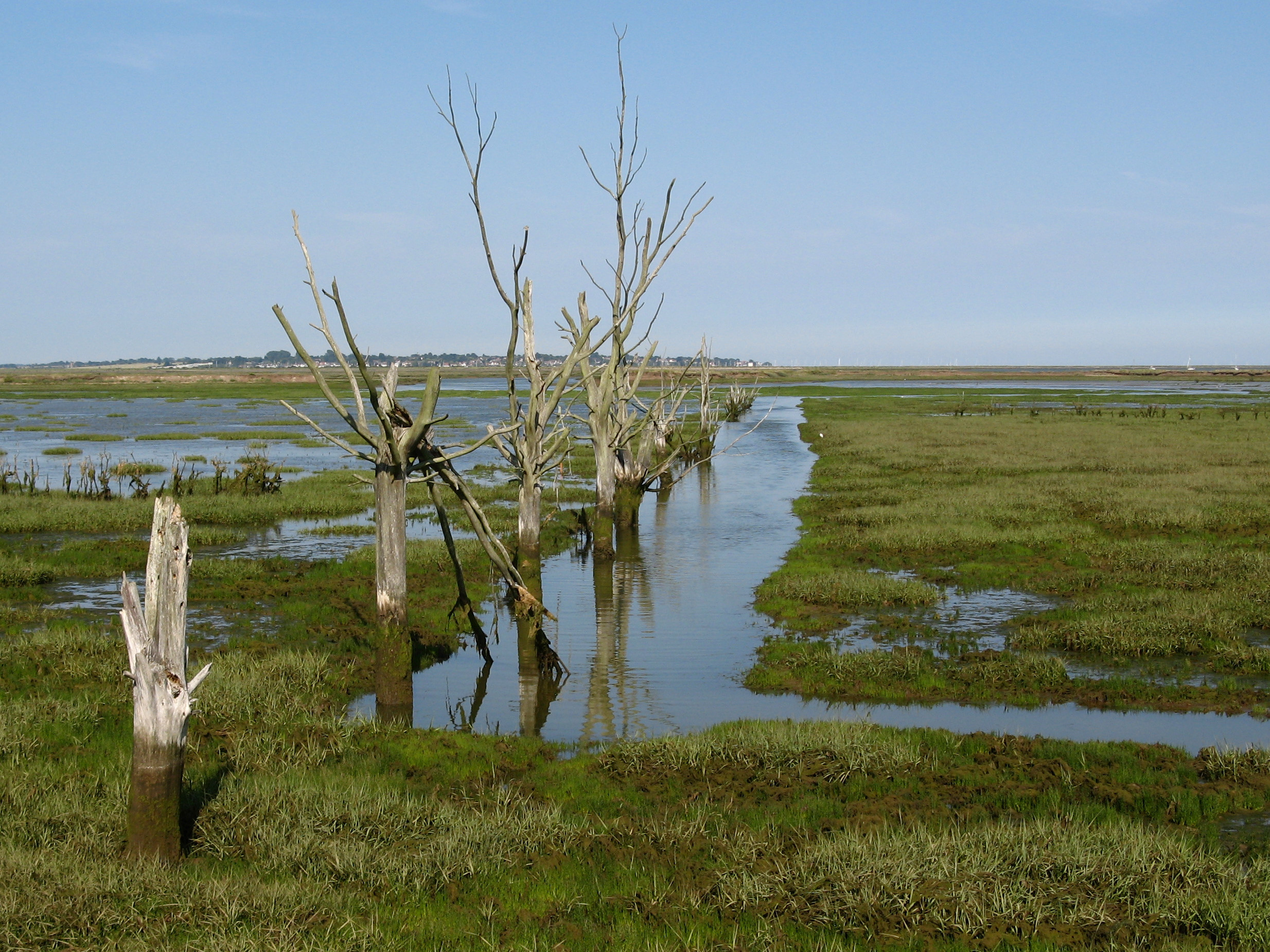 A line of dead trees running toward Tollesbury Fleet. The trees died as a consequence of flooded as part of a 'managed retreat' of seawalls. The opening shot of the 2011 BBC Great Expectations series was filmed here, showing escaped convict Abel Magwitch emerging from the marsh, and thus the trees are sometimes called the "Magwitch trees".